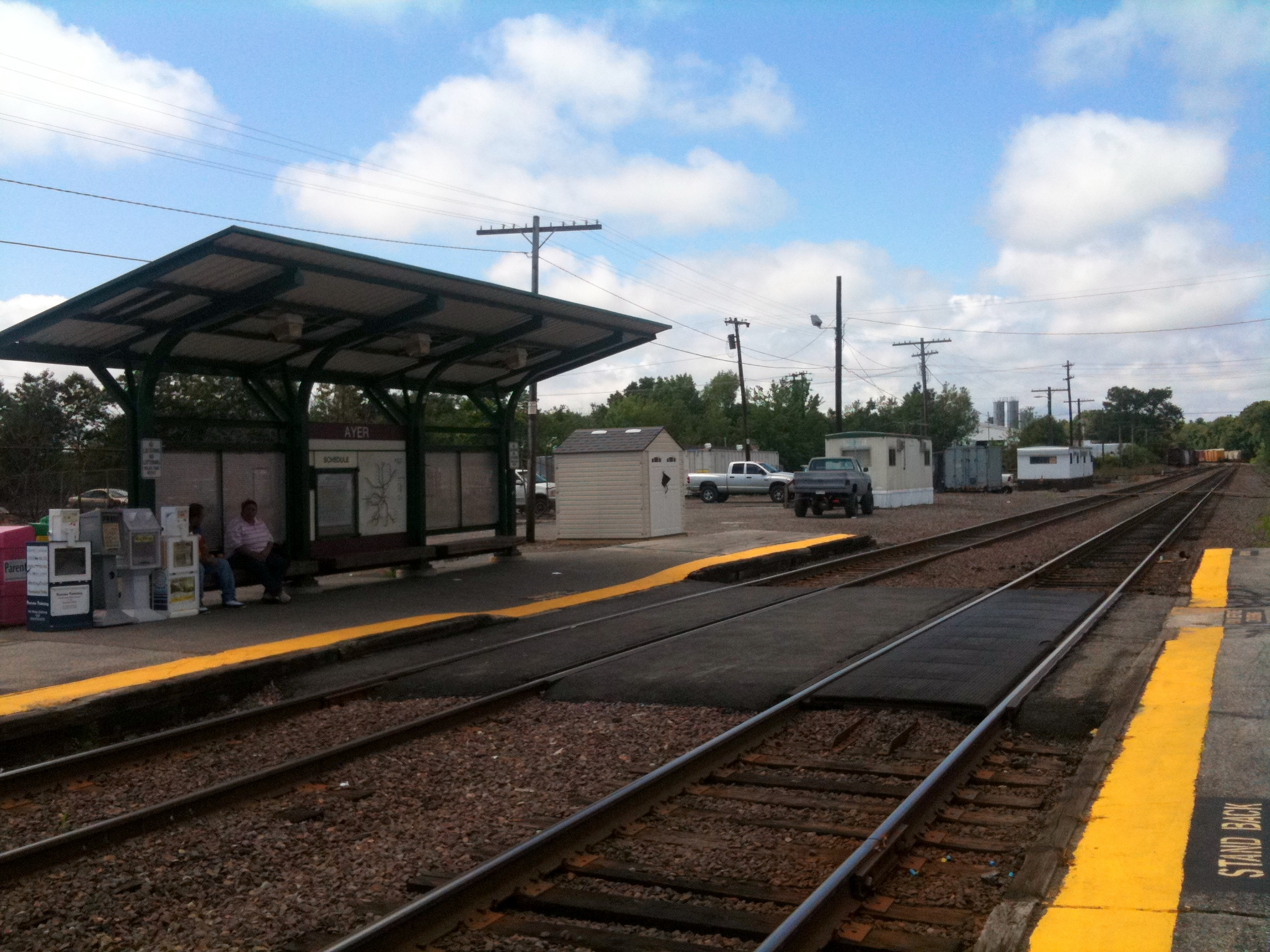 Ayer, Massachusetts MBTA commuter rail station, with freight cars in the distance.